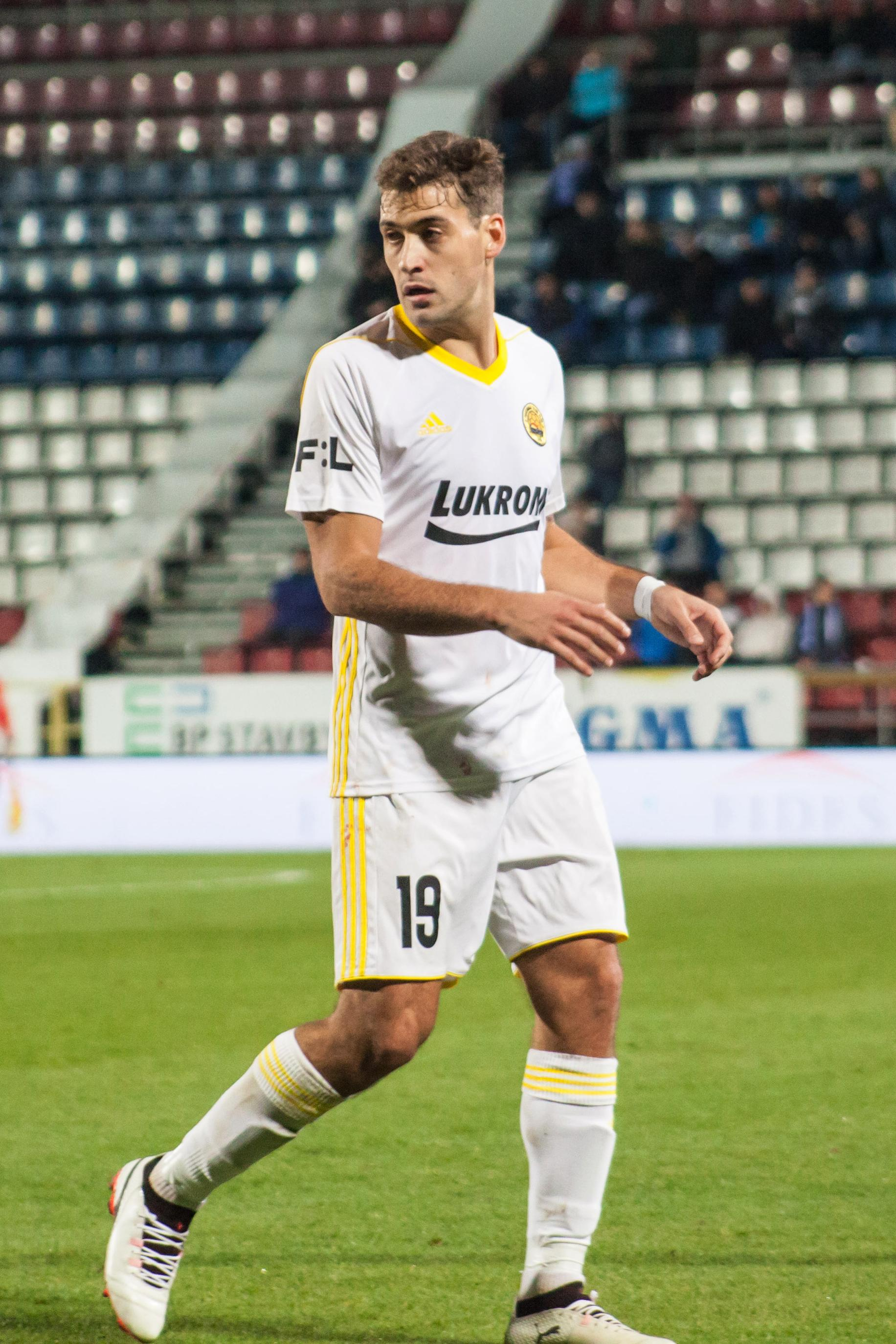 Pablo Podio At Czech cup (MOL Cup) match SK Sigma Olomouc-FC Fastav Zlín played on 15 November 2018